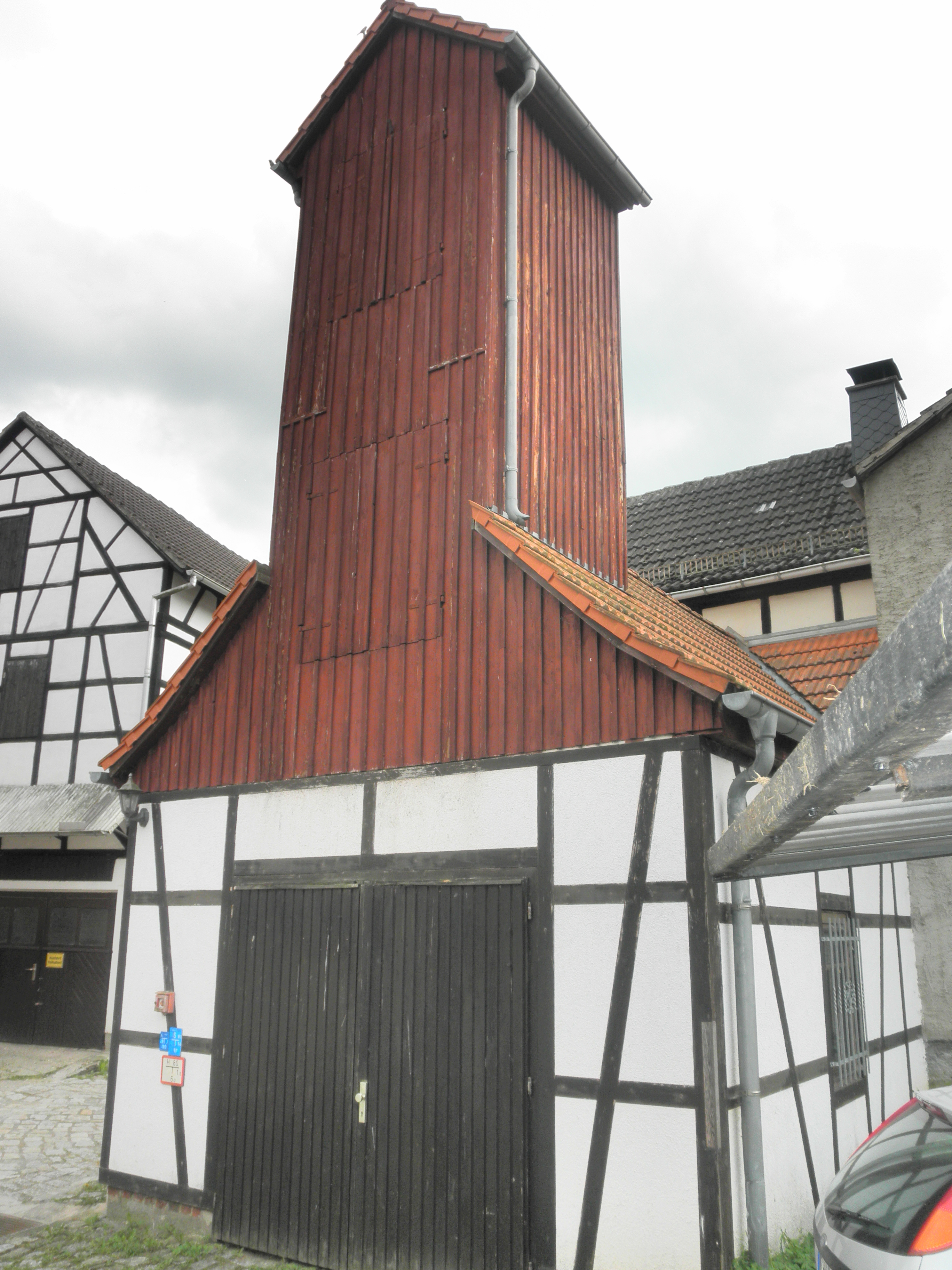 Fire fighters house in Waltersdorf in Thuringia